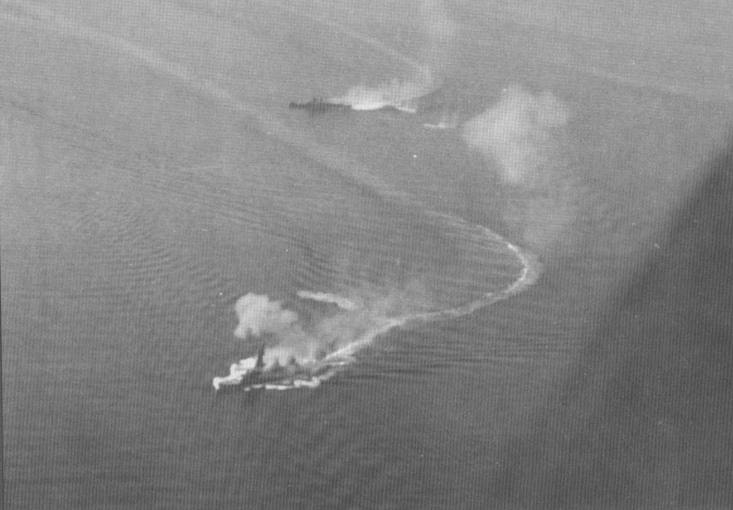 Imperial Japanese Navy battleship Fusō (foreground) under air attack by United States Navy carrier aircraft hours before the Battle of Surigao Strait during the Battle of Leyte Gulf. Fusō was damaged by several bomb hits during this attack. Bruning identifies the ship in the background as battleship Yamashiro but Anthony Tully in his book, The Battle of Surigao Strait (University of Indiana Press, 2009), p. 138, appears to identify the ship in the background (from a different but similar photograph) as the heavy cruiser Mogami. The U.S. Navy caption in the December 1944 All Hands magazine, p. 80, gives the following description: "Jap battleships Yamashiro (foreground) and Fuso maneuver in the Sulu Sea under attack by our carrier aircraft shortly before both were sunk in the Second Battle of the Philippines."